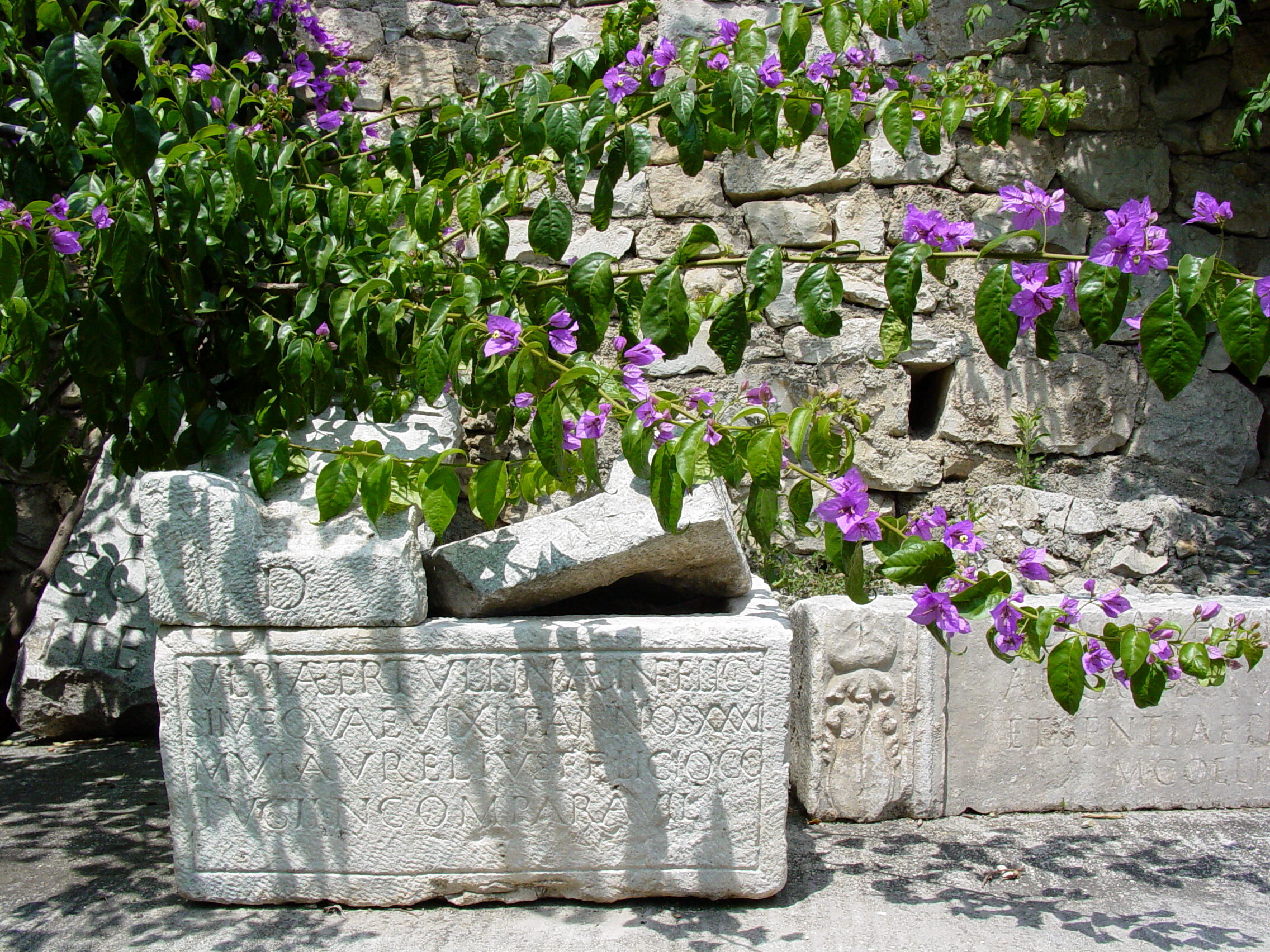 Roman ruins of Solin (Salona) outside Split, Croatia. June 2004.